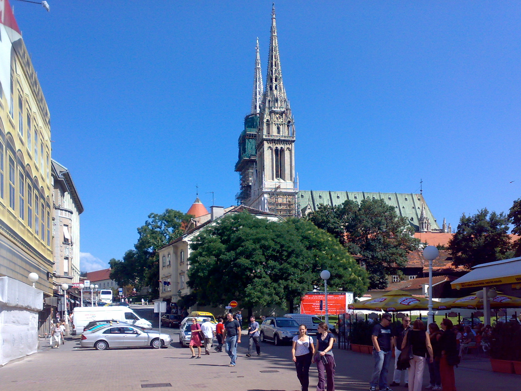 Zagreb - the street near the cathedral